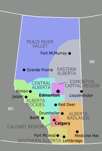 Sample map created to assist Alberta region discussion (not a final version, so not uploaded to WT Shared). (WT-en) Shaund 00:26, 28 October 2008 (EDT)